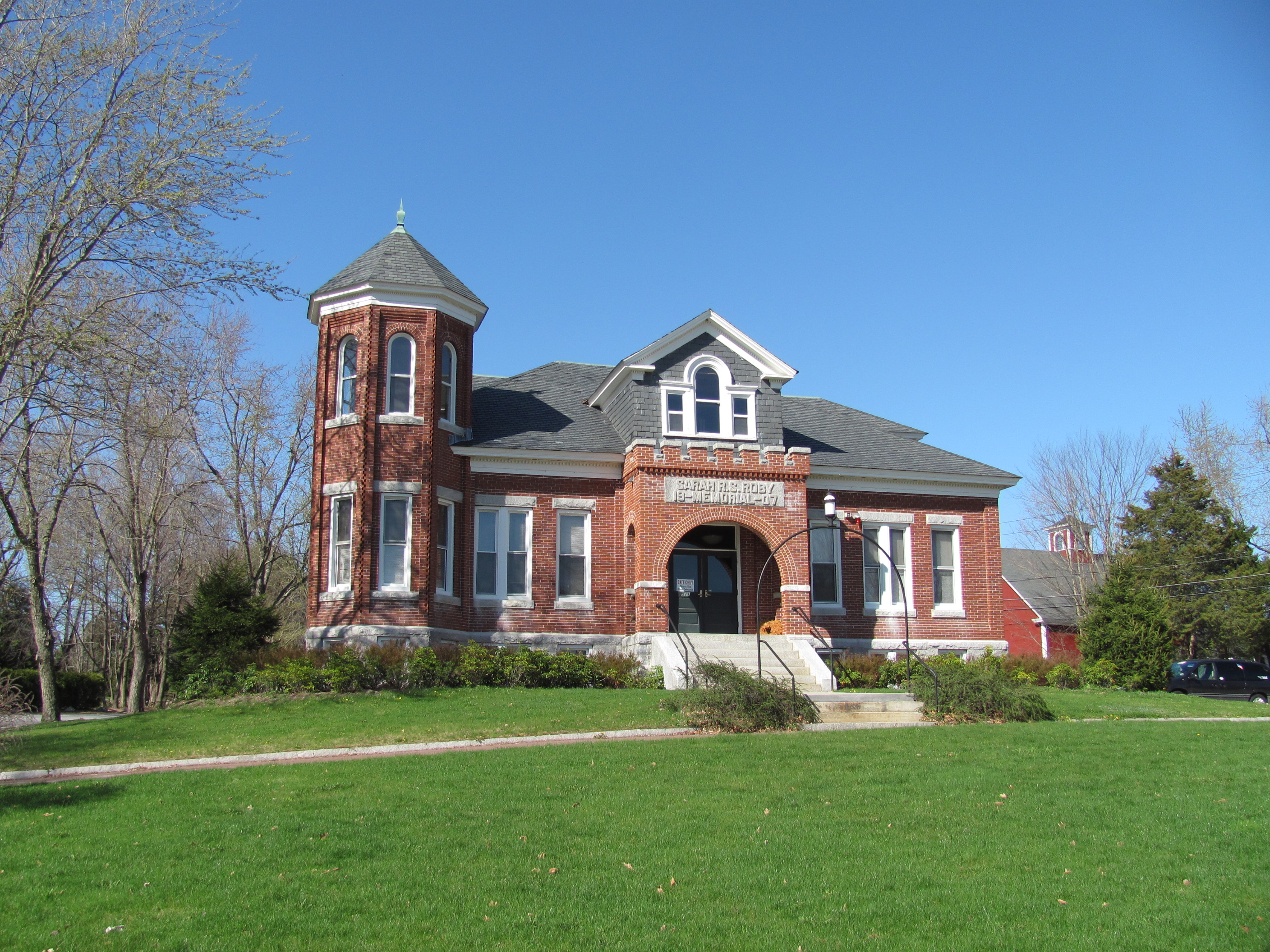 Town Hall, Dunstable Massachusetts - also known as Roby Memorial Hall, Built in 1907